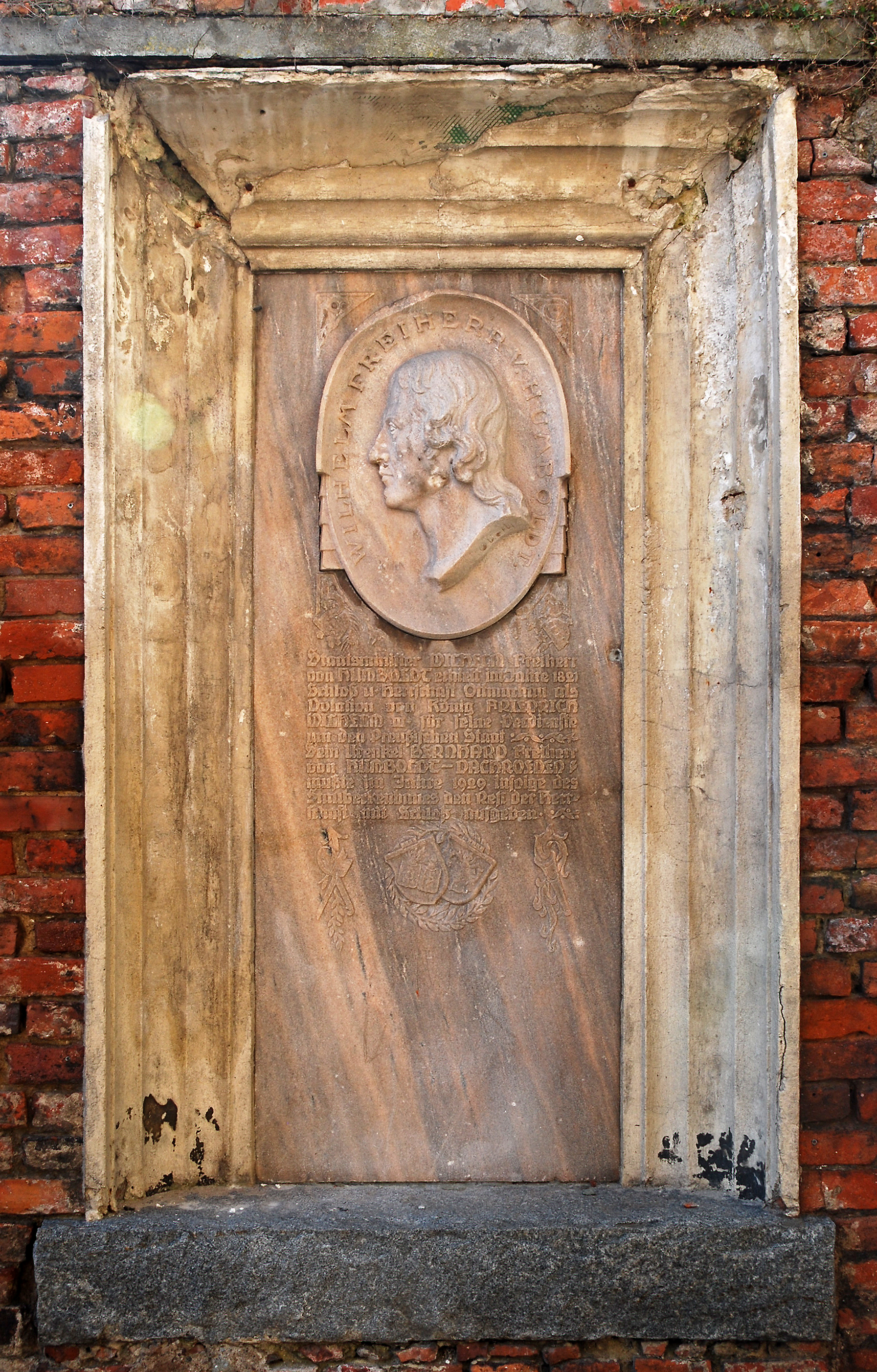 Otmuchów Castle, memorial of Wilhelm von Humboldt